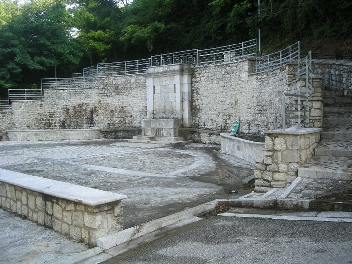 Fontana Beveri in the Italian comune of Guardia Lombardi.